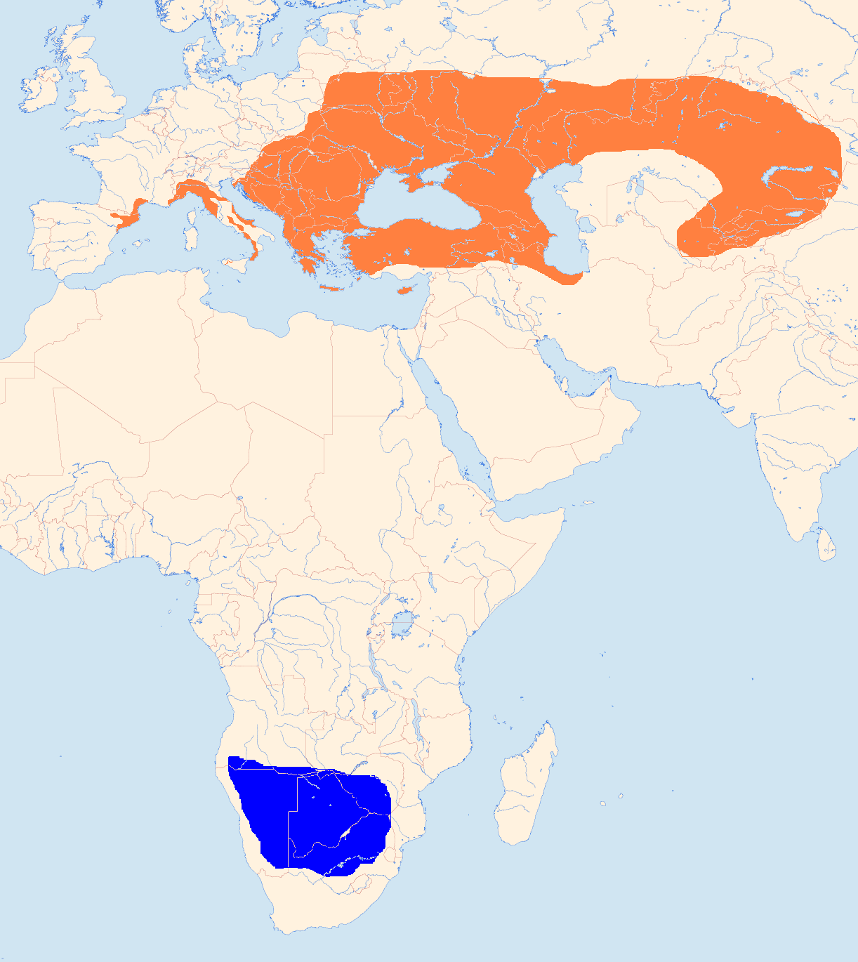 Lanius minor: Range Map